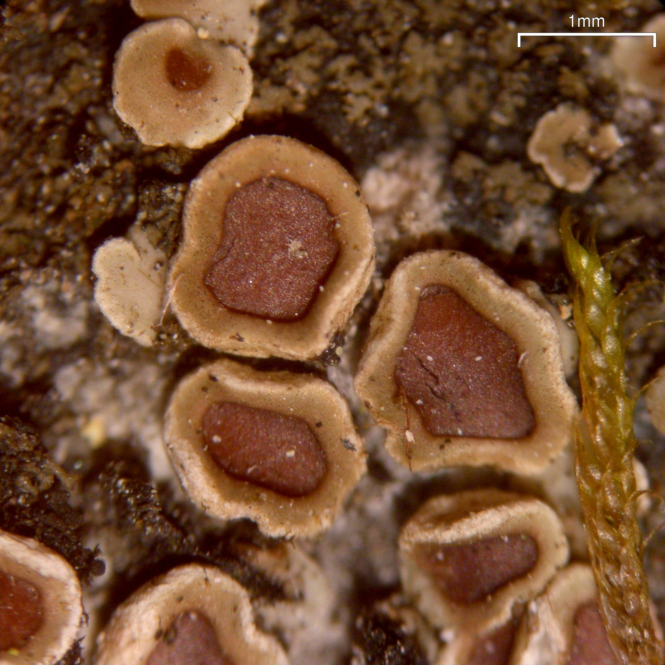 The lichen species Acarospora glaucocarpa (Ach.) Körber. Specimen photographed in Vavenby Limestone South, British Columbia, Canada. See link for more details.